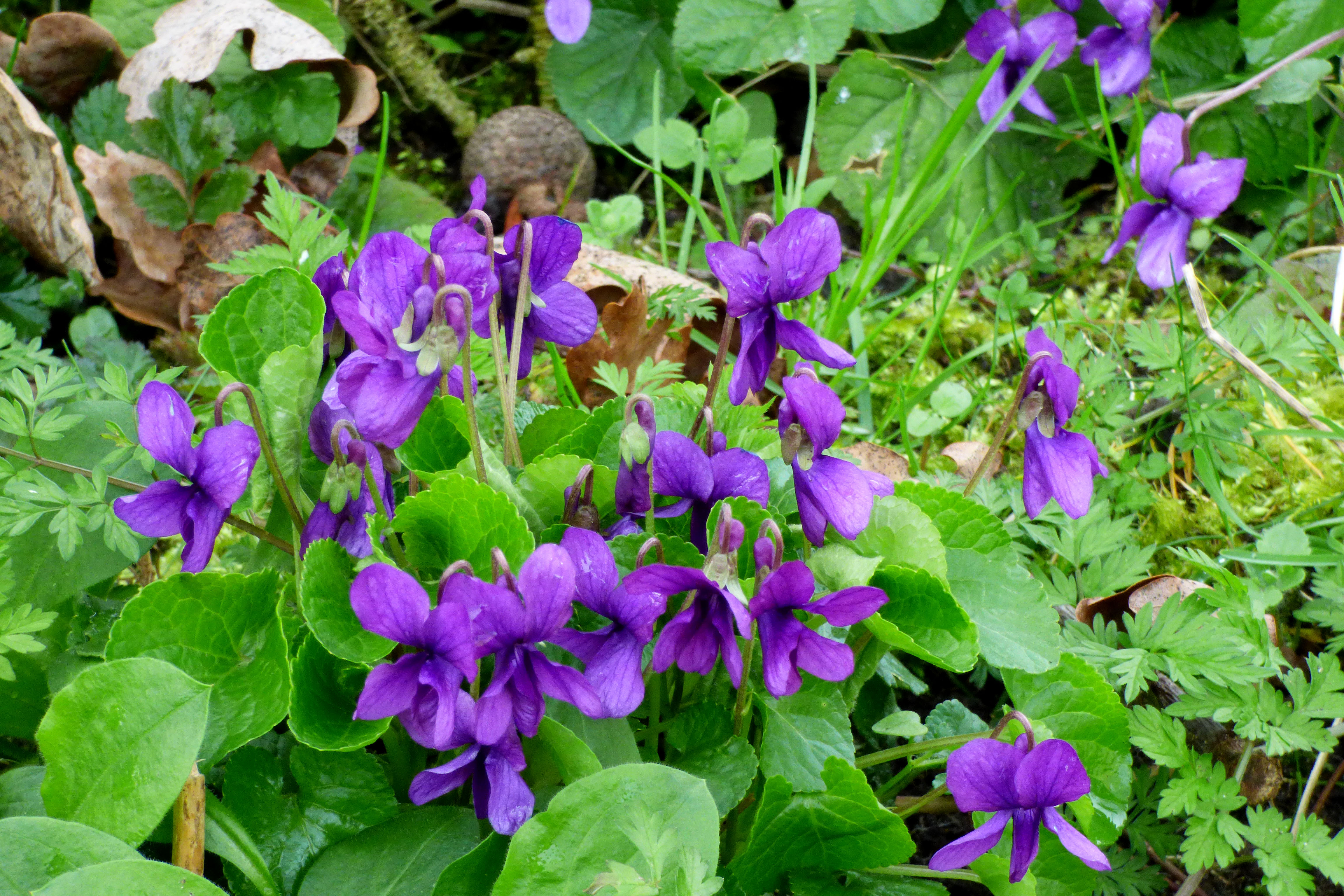 Sweet violets photoed at Wymondham, Norfolk, U.K.